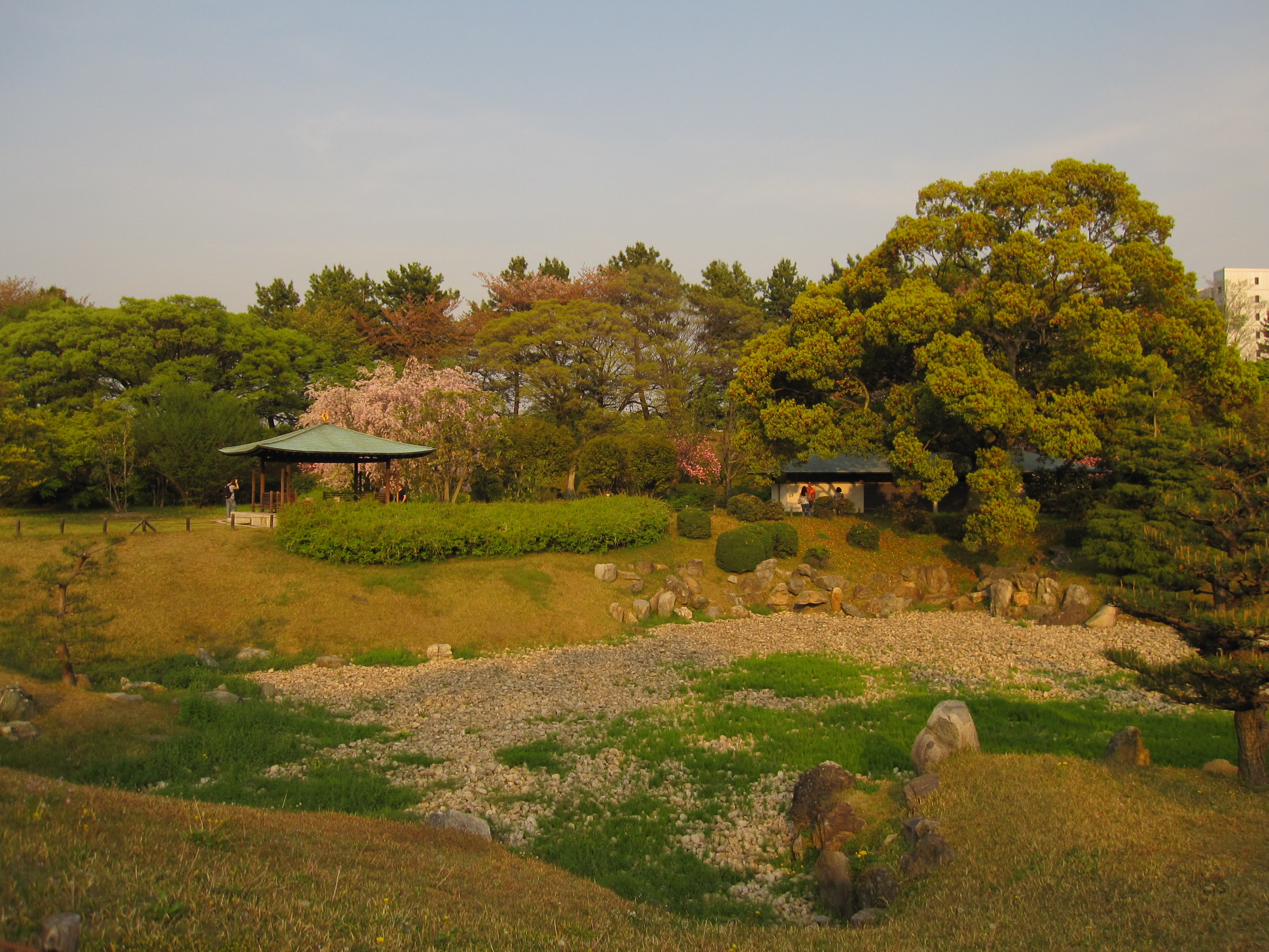 East Ninomaru Garden of Nagoya Castle.